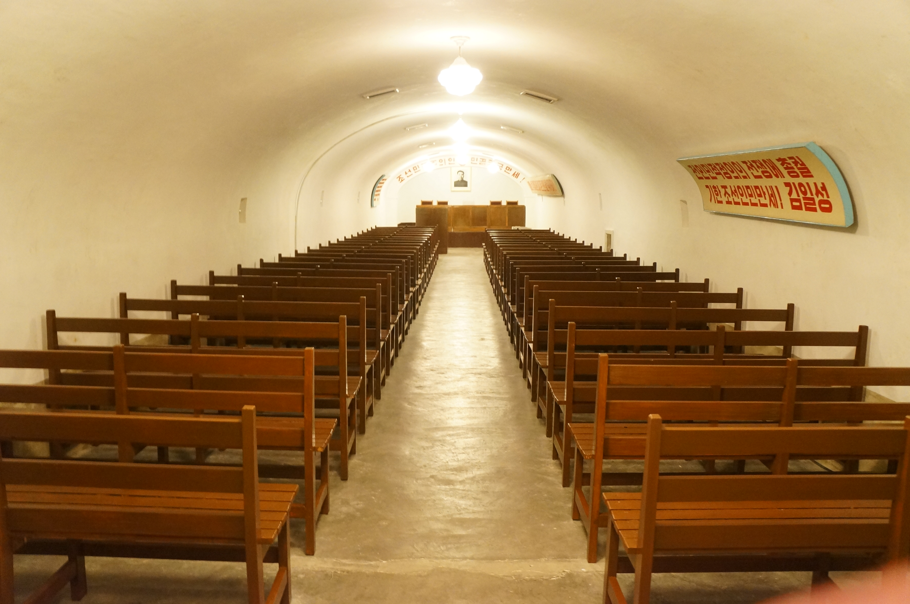 Old underground assembly hall for KPA meetings during the Korean War, with the original seats, podium and artwork. Pyongyang, DPRK (North Korea)